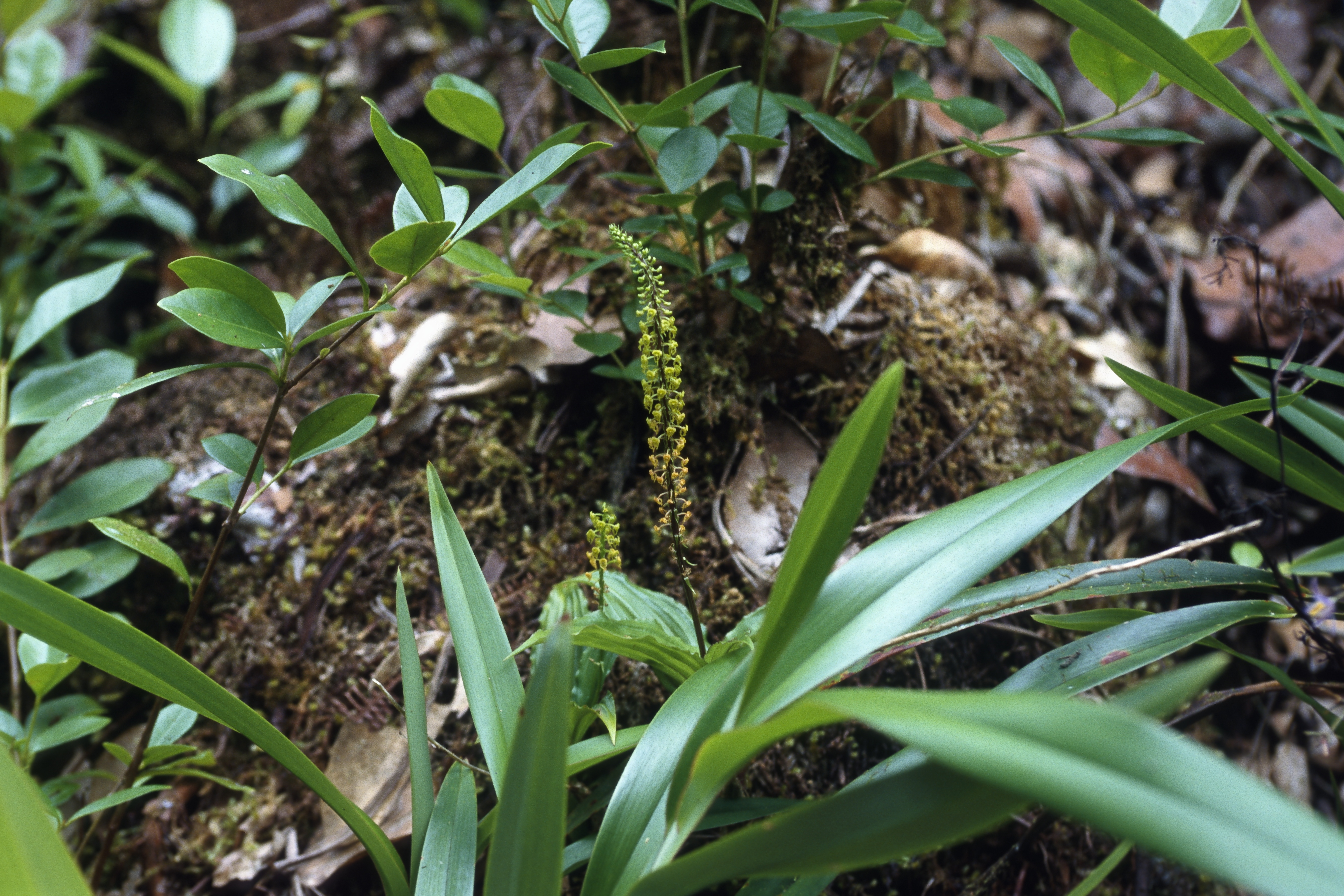 Malaxis seychellarum Morne Blanc, 667 m, near summit Mahé, Seychelles